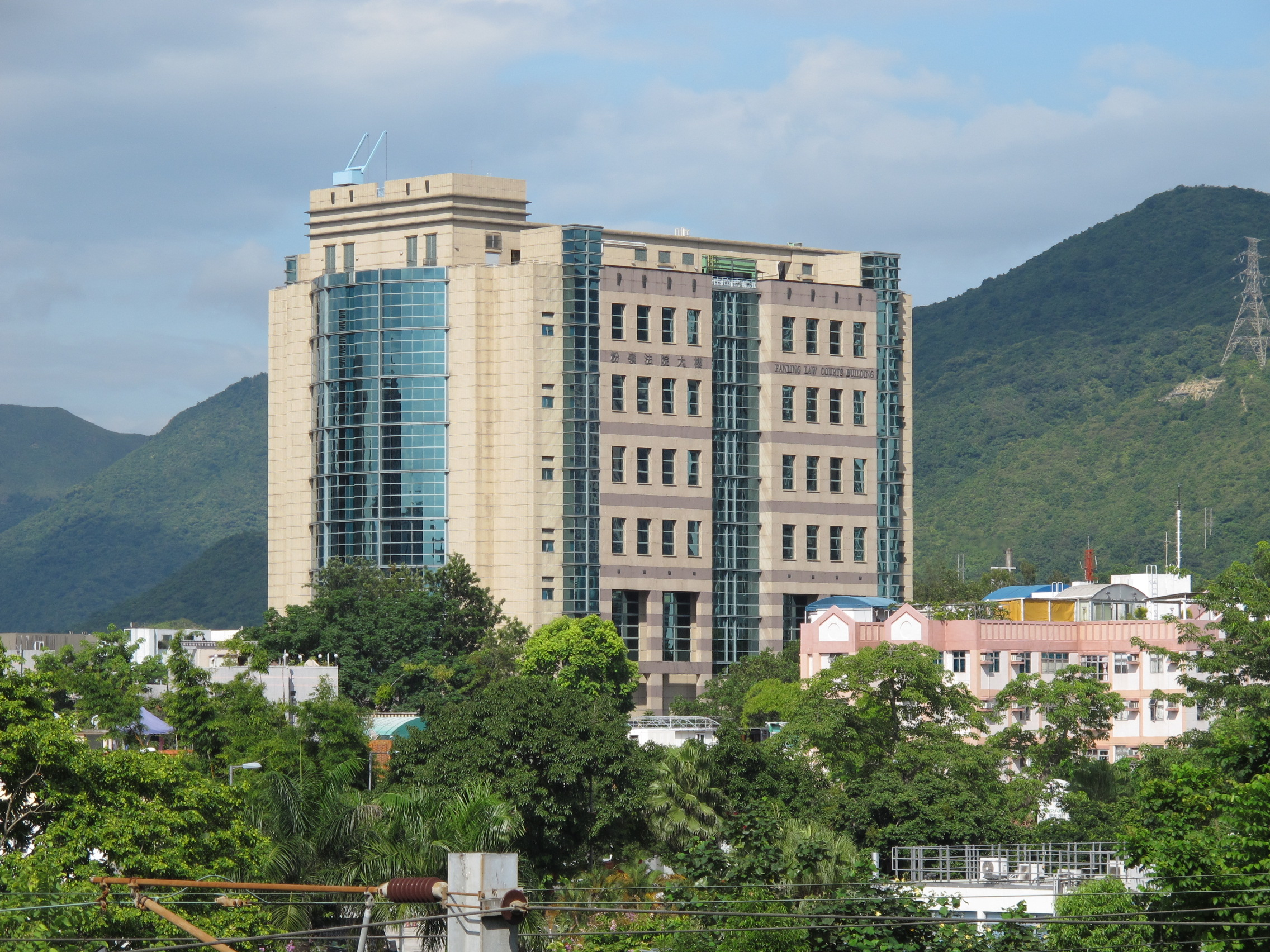 Fanling Magistrates' Courts